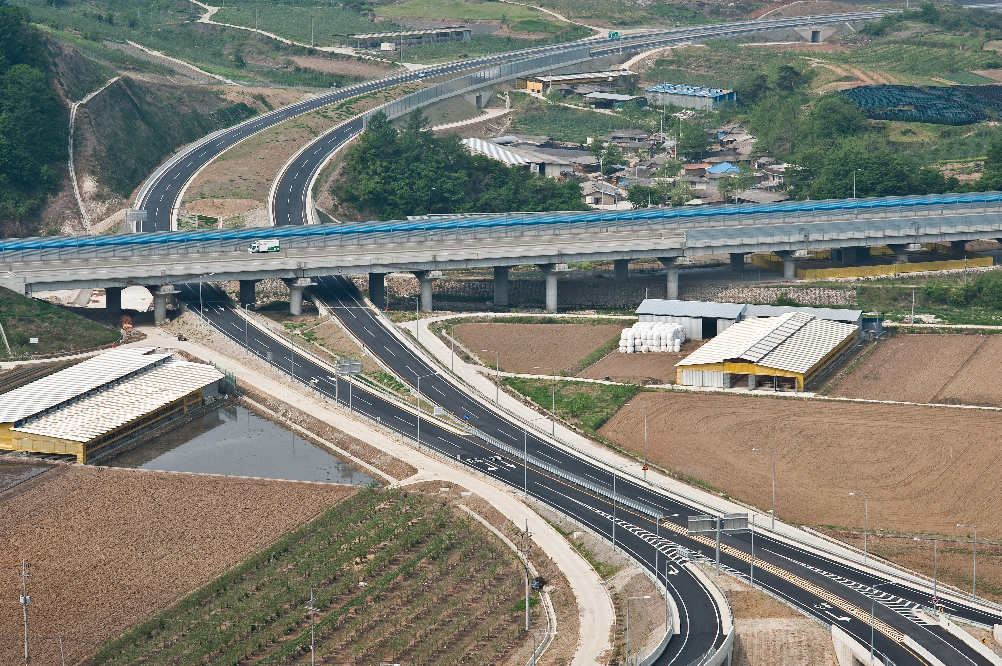 No.3 National highway and Overpassing Joongbu-Naeryuk (Mid-Central) Expressway. Choongcheongbukdo, Korea.